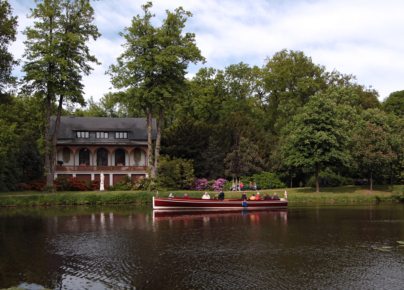 The new boat Marie by the Meierei-Villa in the Bürgerpark in Bremen, Germany.